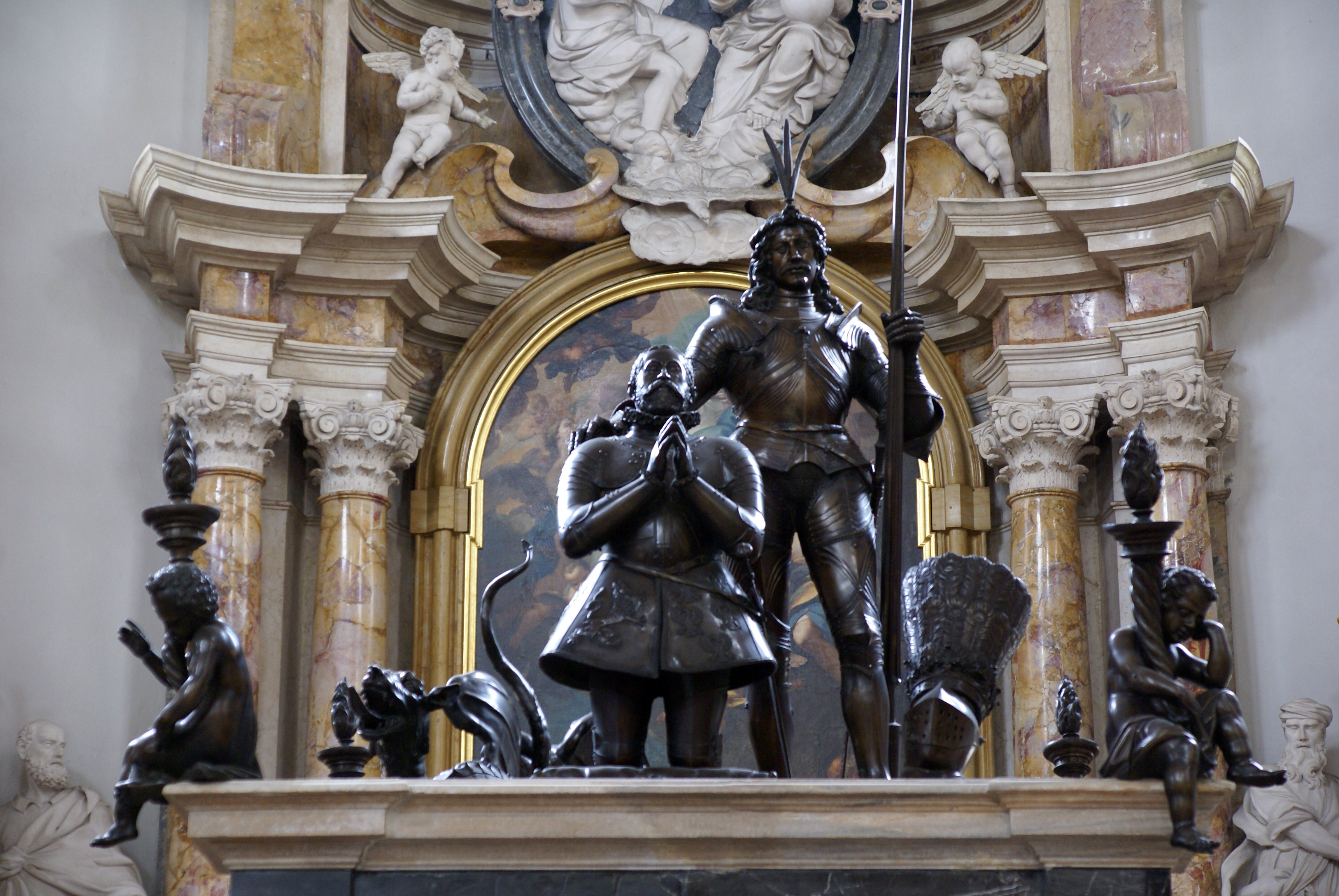 Cathedral of St. James Tomb in Innsbruck, Austria